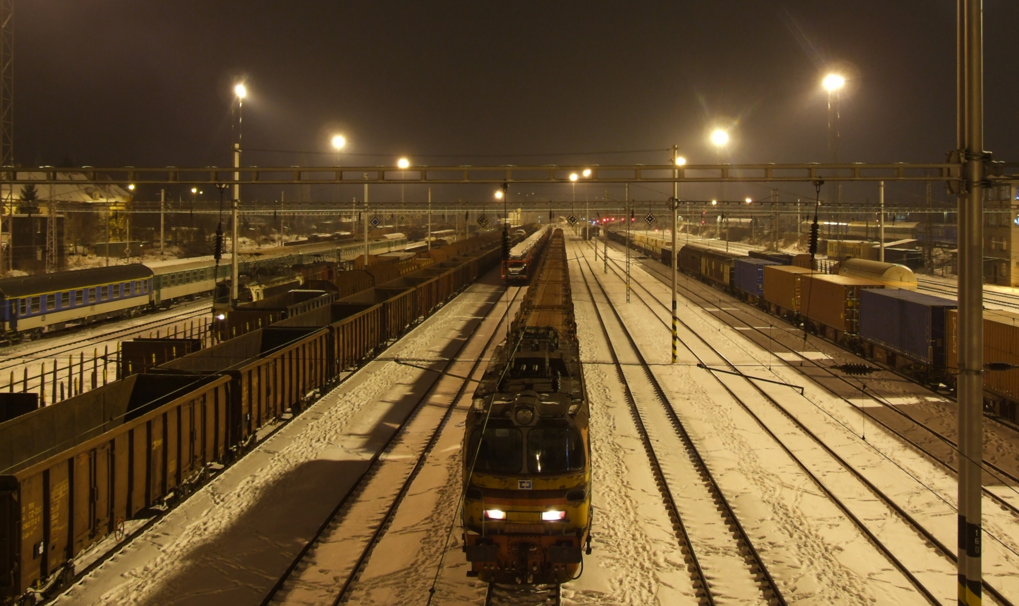 Trains in České Budějovice (Budweis), Czech Republic. Railway lines 194 and 196